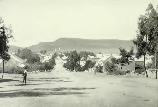 The Church Street (Kerkstraat) in Bloemfontein with the 'Tweetoringkerk' (Church with the two towers) on the end of the road. Naval Hill in the background. (photo from the South - about 1900.)